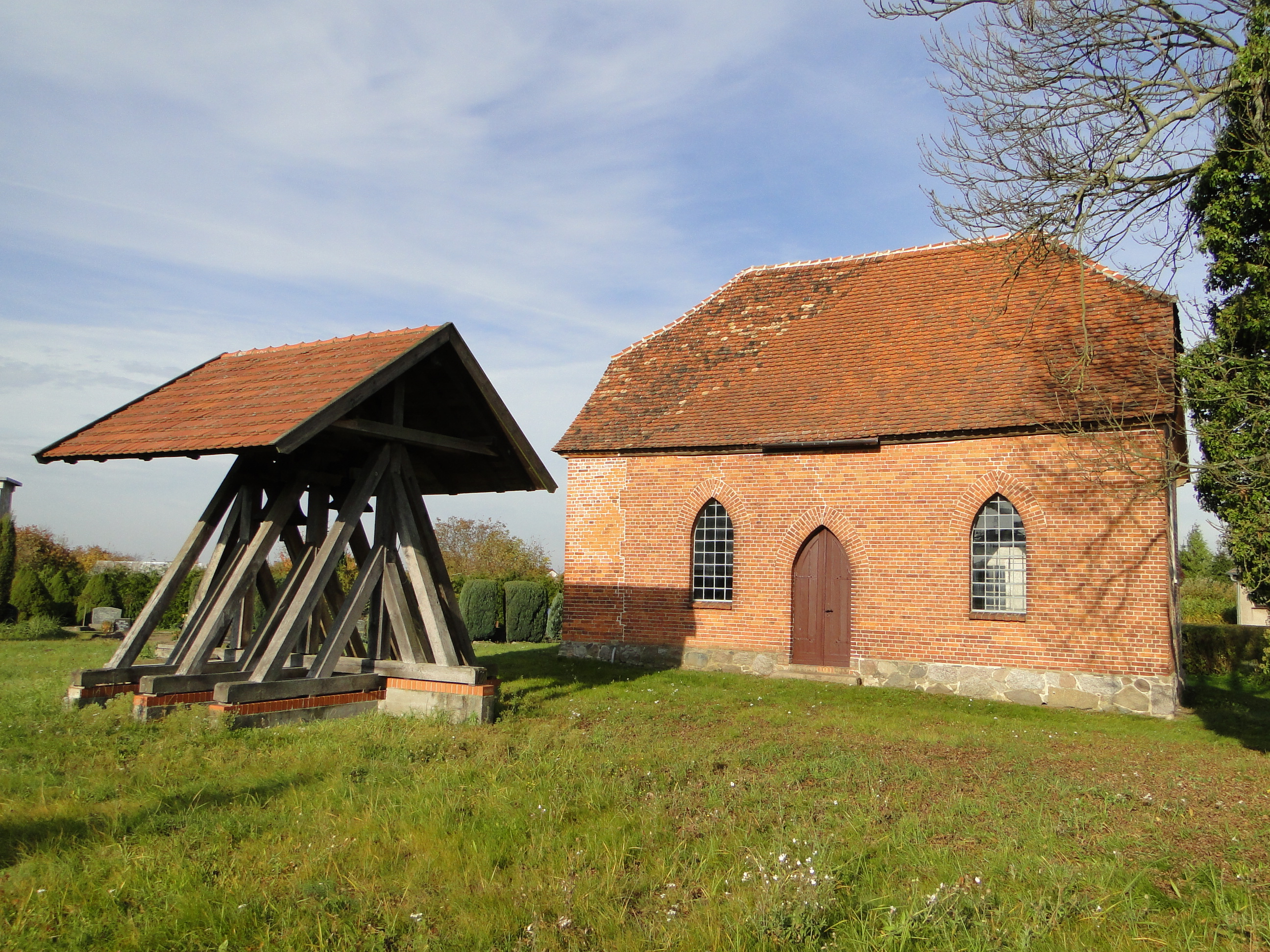 Church in Blumenholz, district Mecklenburg-Strelitz, Mecklenburg-Vorpommern, Germany